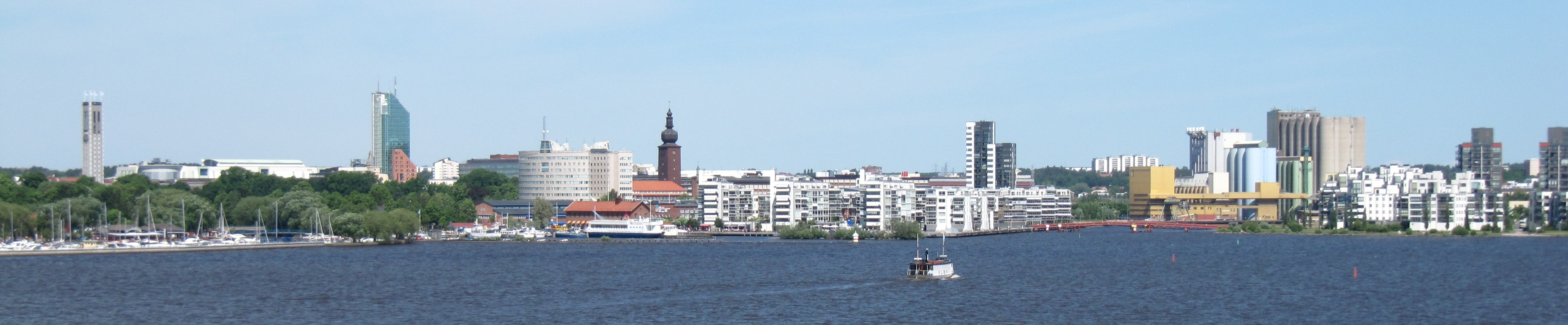 Västerås (view from lake Mälaren)